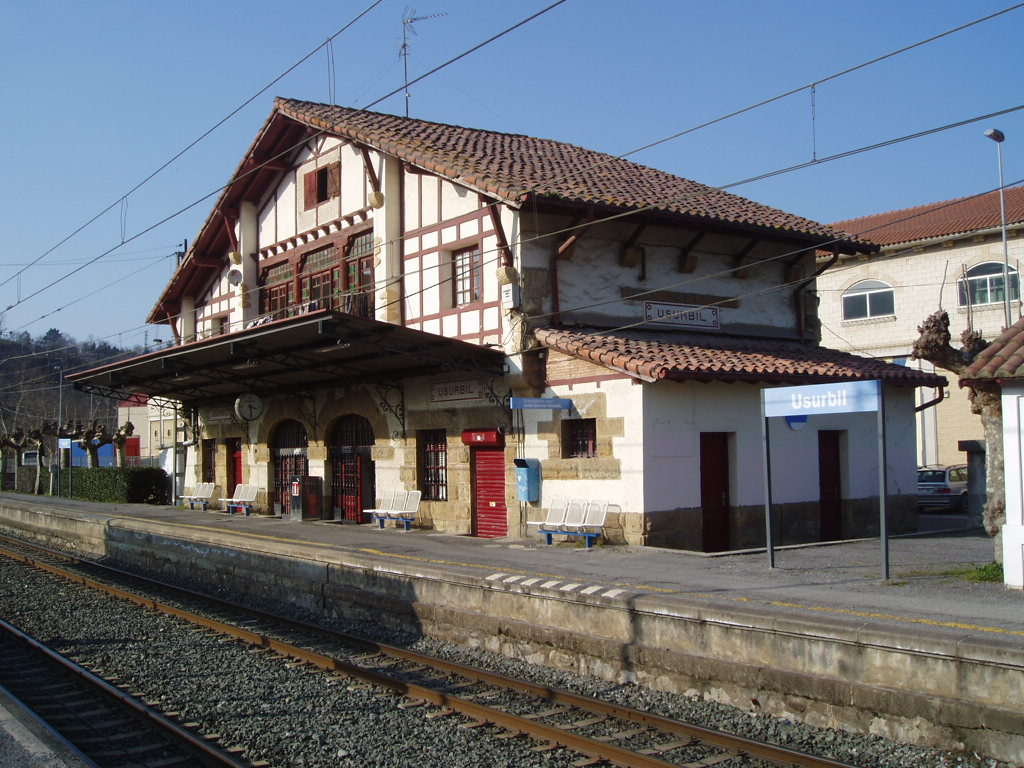 Railway station of Usurbil (Gipuzkoa). Operating company: Euskotren.